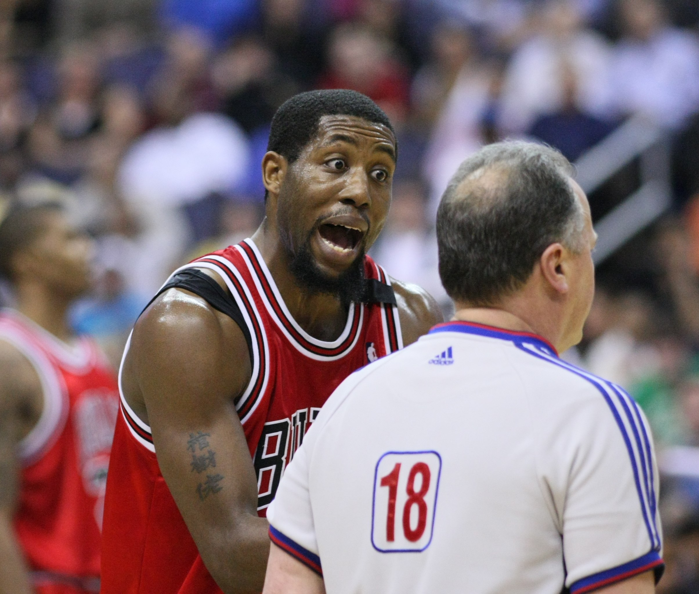 John Salmons playing with the Chicago Bulls